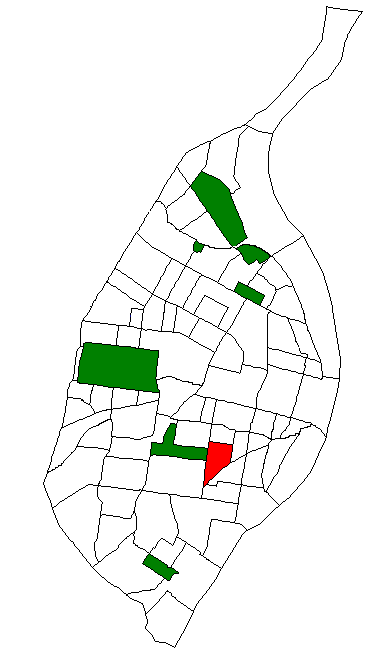 Map of St. Louis Neighborhood #25